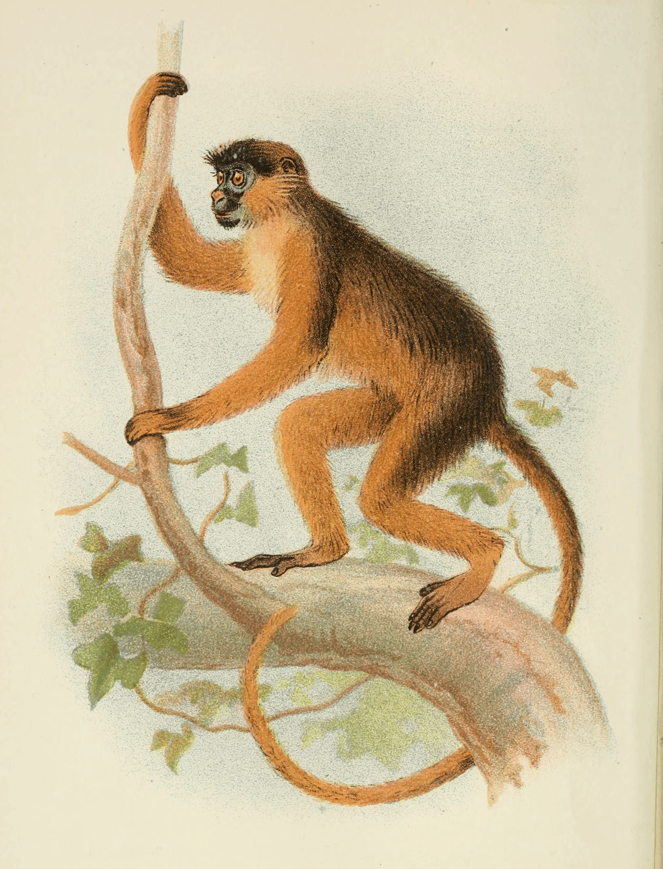 Plate XXXIII. Bay Guereza Colobus ferrugineus.